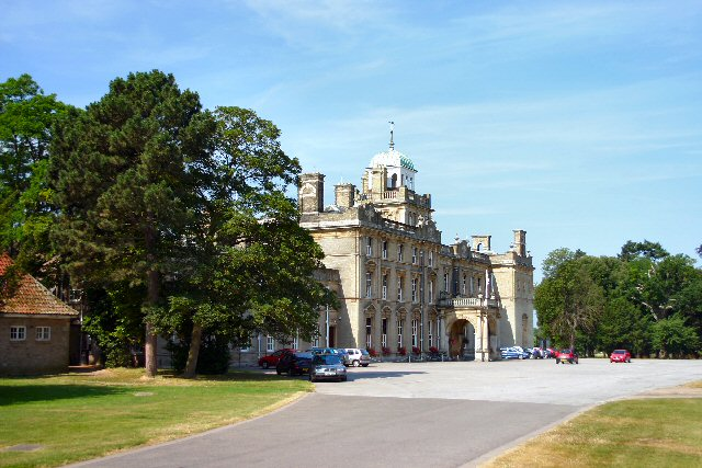 Culford School